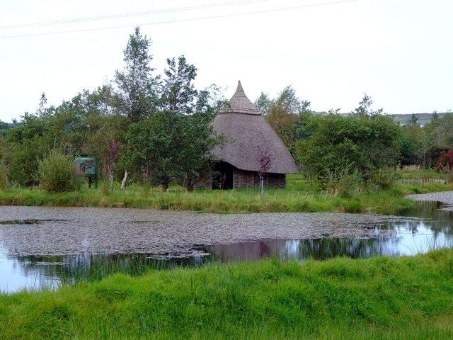 Recreated 'Crannóg' at Millstreet Country Park I suppose that Millstreet Country Park should be described as a theme park, its theme being the wildlife, archeology and history of the area. It must be unique in that its entrance is around 390M up a mountain. After you enter, you must drive around 2KM and drop about 180M to reach the visitor centre. The photo shows a recreated crannóg, a prehistoric dwelling on an artificial island, just one of the delights of this wonderful place.